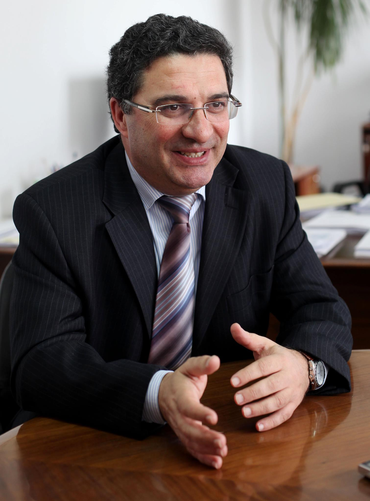 professor universitário, investigador, consultor e gestor de empresas, inventor, escritor, pintor e político português